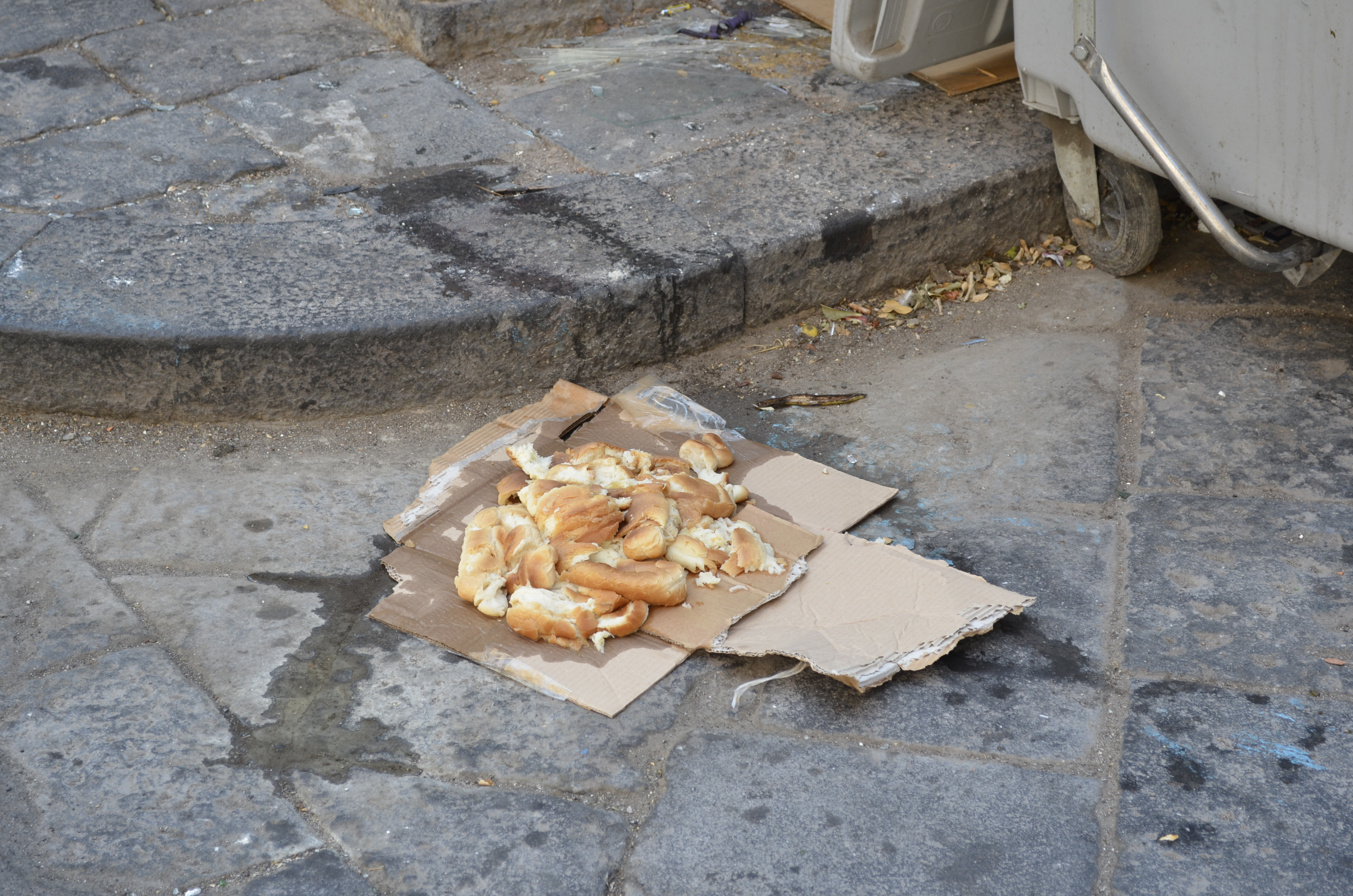 Food for stray animals in Catania, Sicily